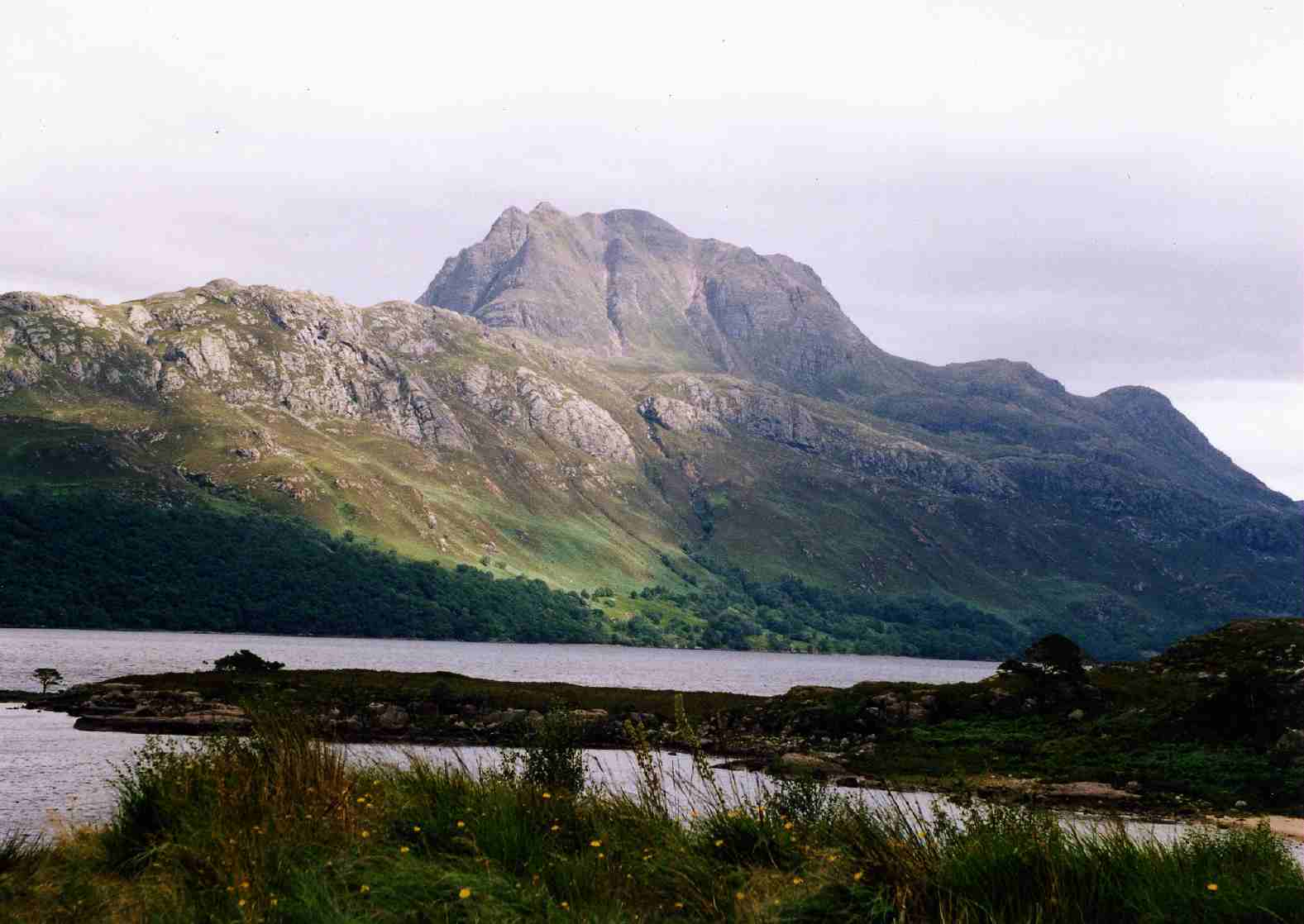 Personal photograph taken by Mick Knapton in May 1992